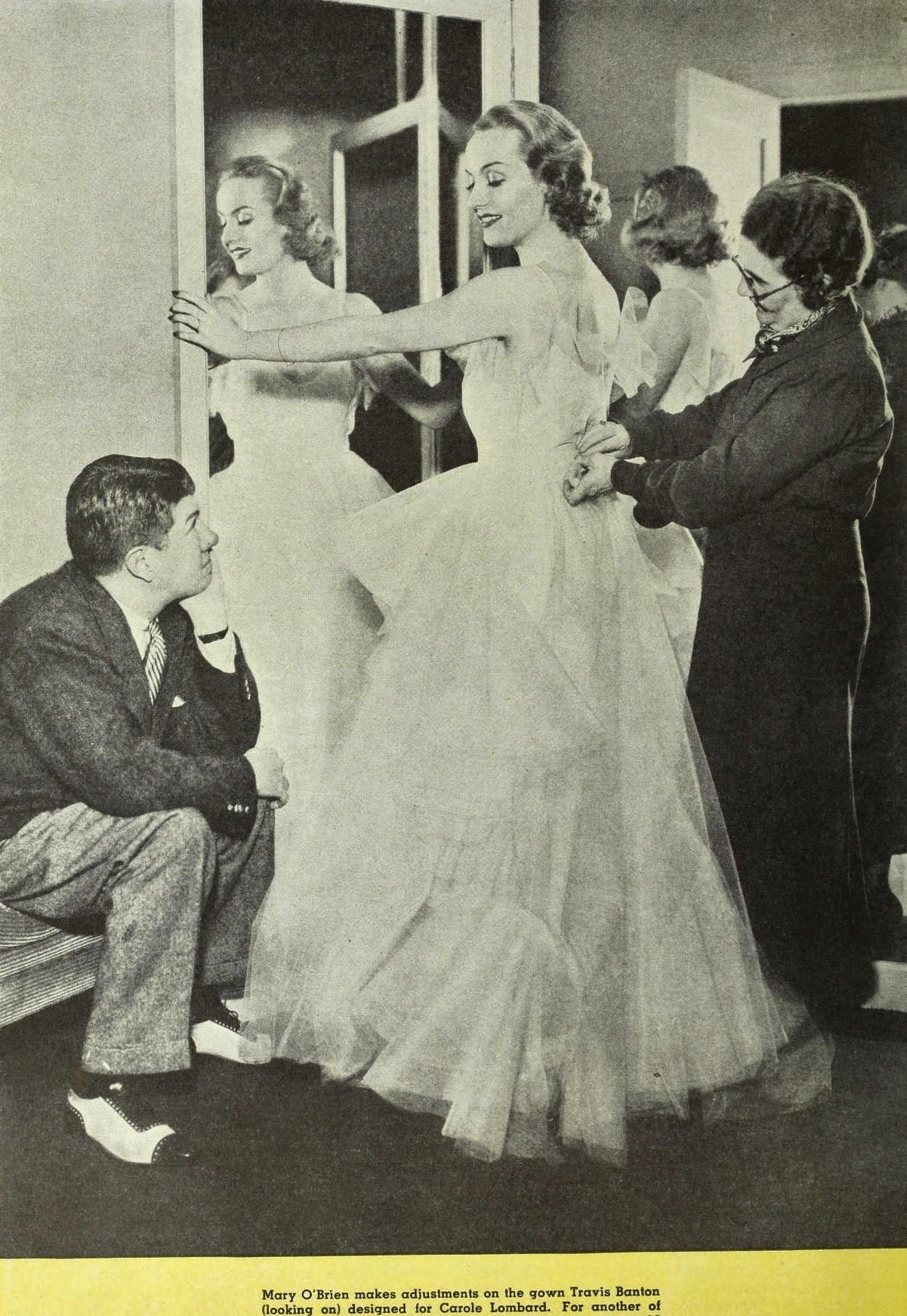 L to R: Travis Banton, Carole Lombard, and Mary O'Brien, 1936